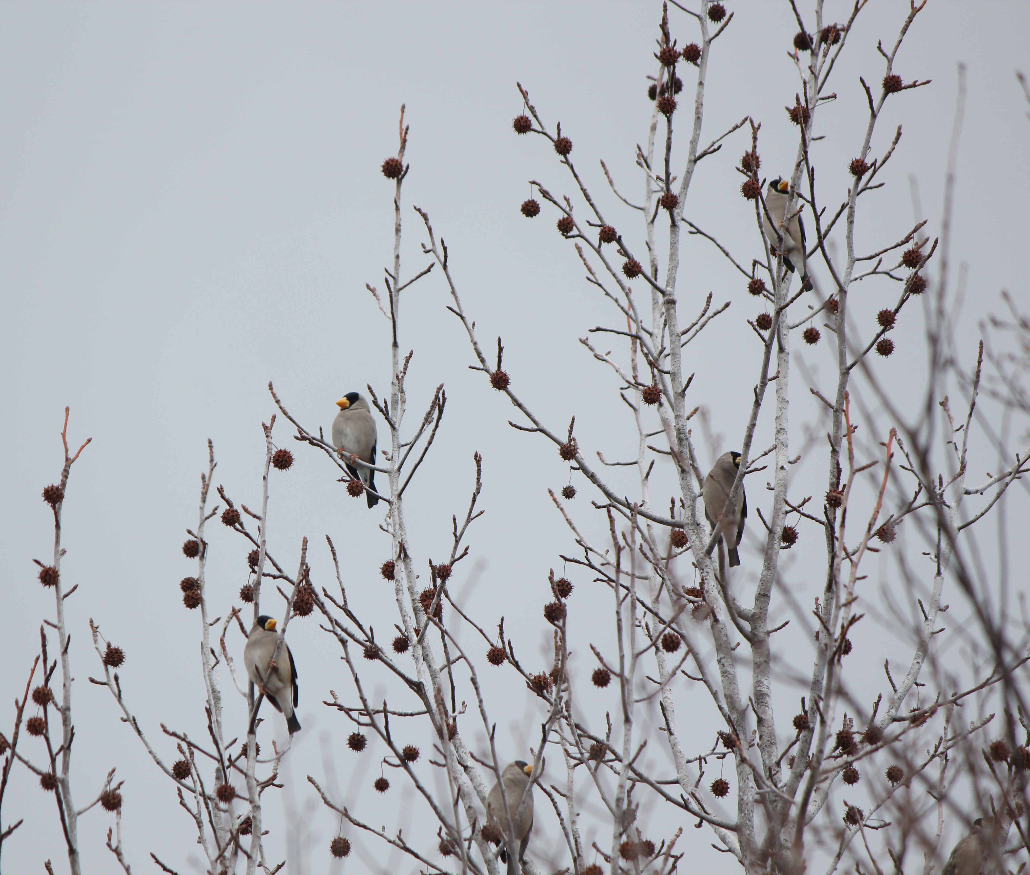 Flocks of Eophona personata on tree in Aichi Prefecture, Japan.